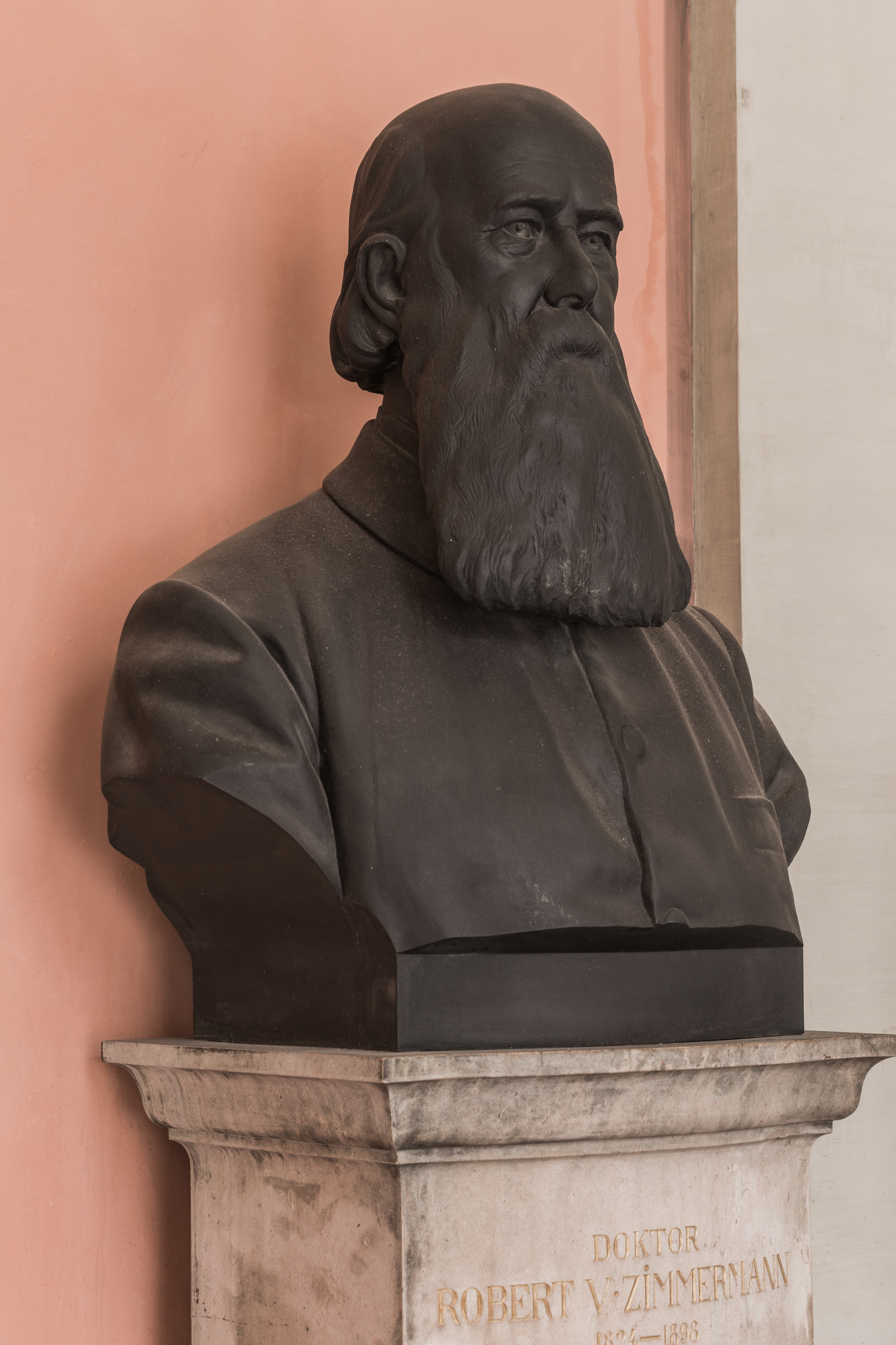 Robert von Zimmermann (1824-1898, bust (dark bronce) in the Arkadenhof of the University of Vienna, (Maisel# 22). Artist: Edmund Klotz (1855-1929), unveiled 1916